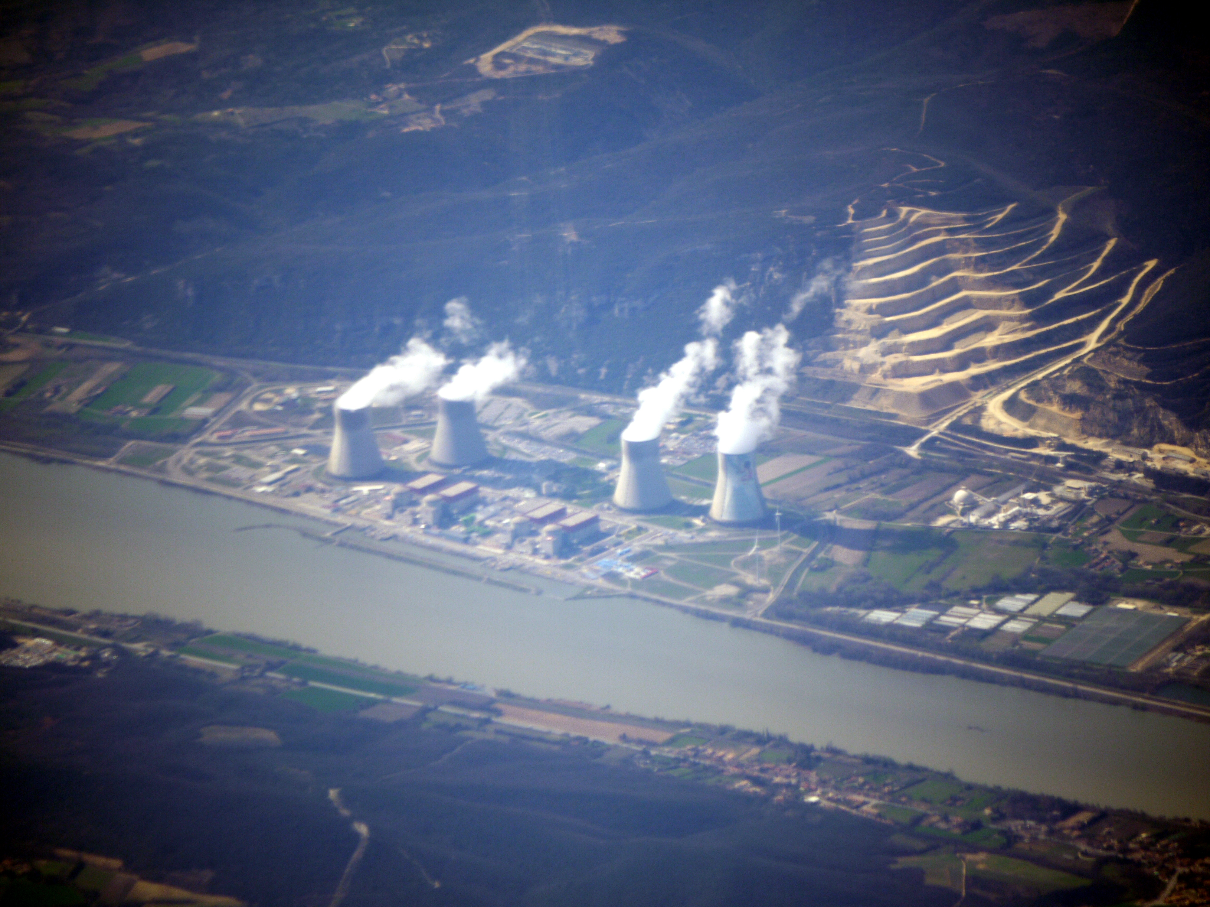 Le The nuclear site of Cruas in France, photograph taken from the sky, on the fly line between Marseille and Stockholm.